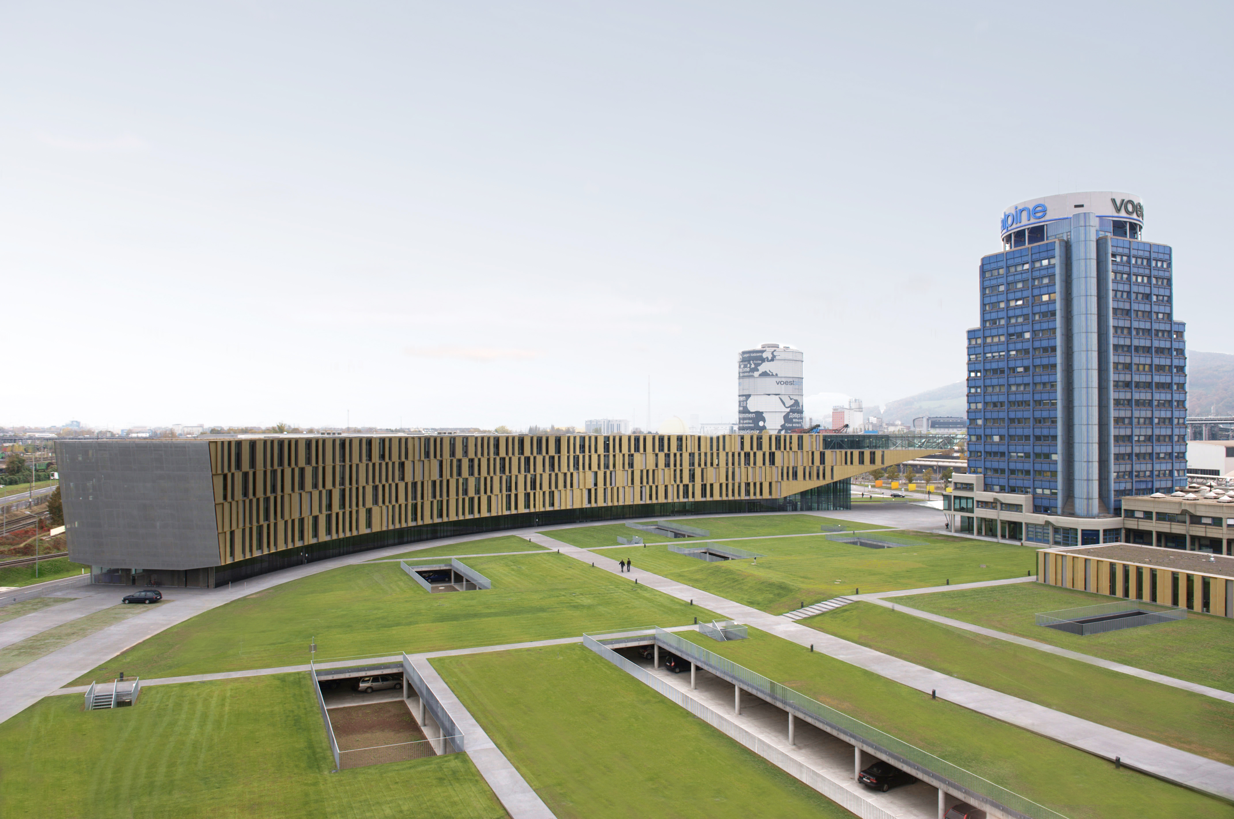 Office building Voestalpine, Linz, Austria